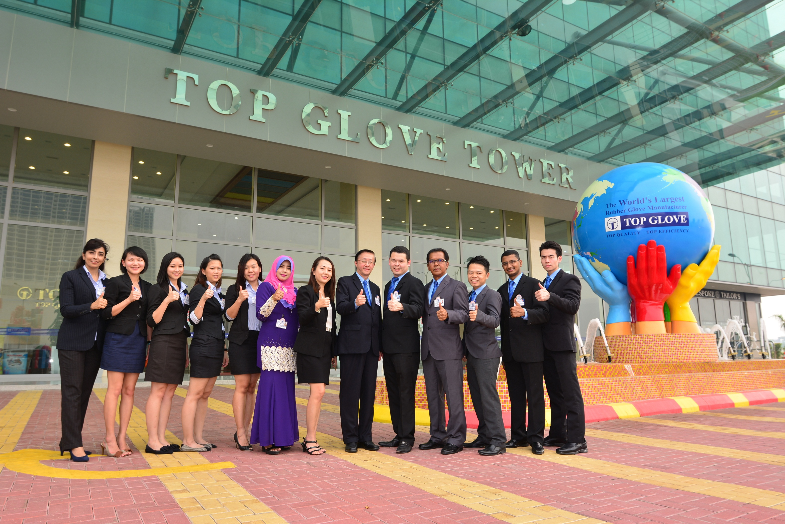 Business Development Team